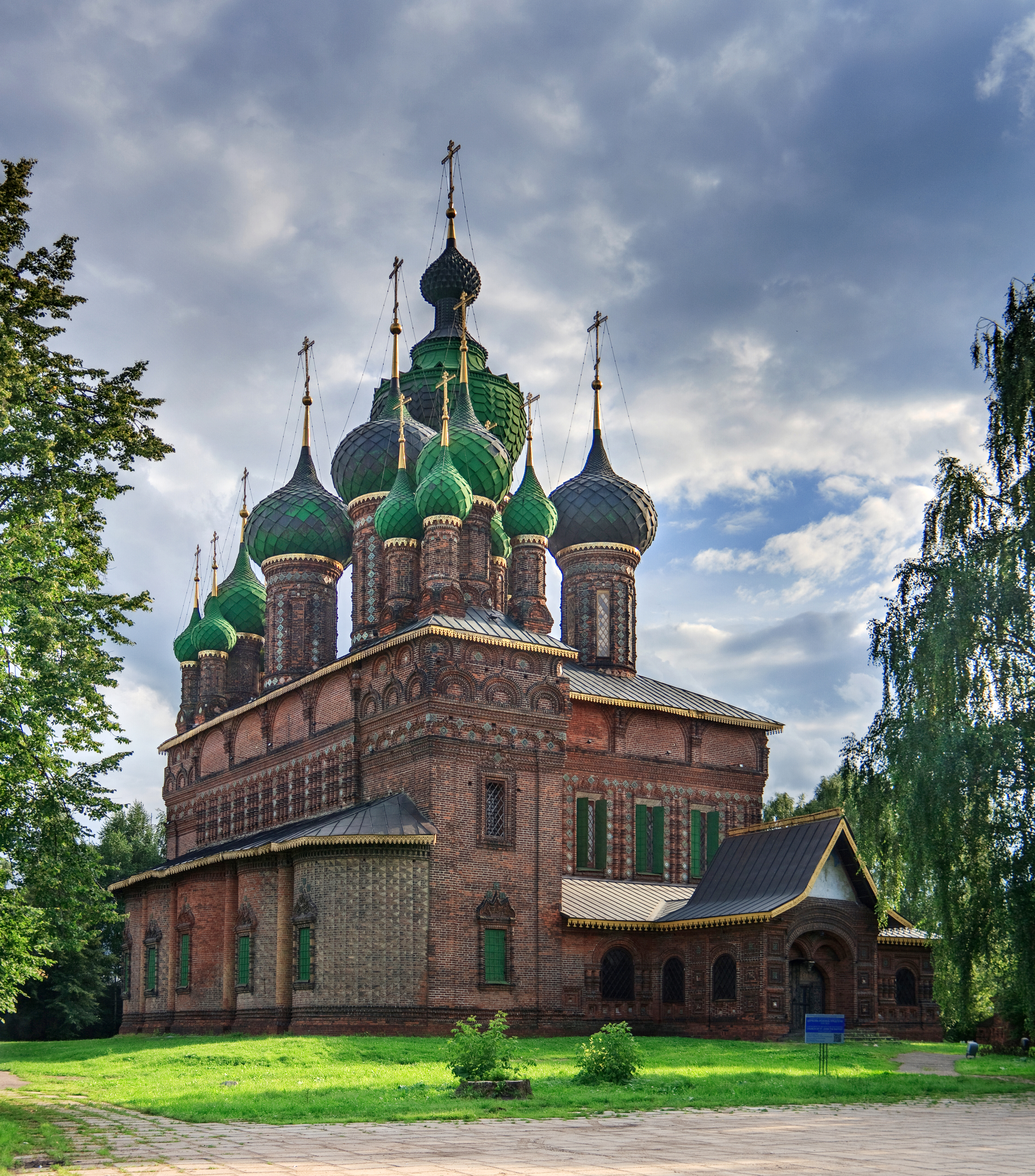 St John the Baptist Cathedral, Yaroslavl, Russia